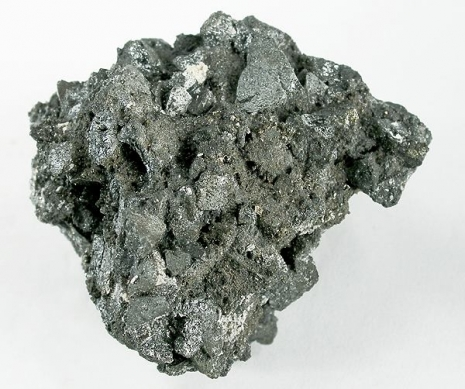 Freibergite Locality: Ánimas Mine, Atocha-Quechisla District, Sud Chichas Province, Potosí Department, Bolivia Size: 4.8 x 4.8 x 4.1 cm Freibergite specimens from the Animas Mine are rare and are very rarely on the market in good quality, although known. This showy and very rich silver ore specimen is composed entirely of splendent, battleship-gray freibergite crystals to 1.0 cm. Old-time, classic sulfosalt material from the Rock Currier Collection. This is a very rich and excellent freibergite specimen for any worldwide locality. It has been analyzed to confirm its authenticity and is not just tetrahedrite.